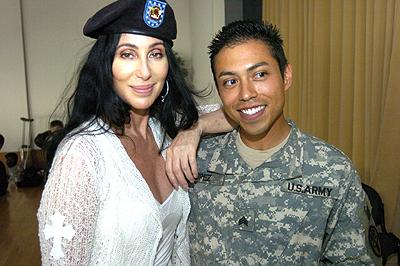 Cher meets with staff members during her July 12, 2006, visit at Landstuhl Regional Medical Center, Germany. LRMC is the largest American hospital outside the United States, serving more than 245,000 U.S. military personnel and their families within the European Command. LRMC is also the evacuation and treatment center for all injured U.S. servicemembers serving in Afghanistan and Iraq.